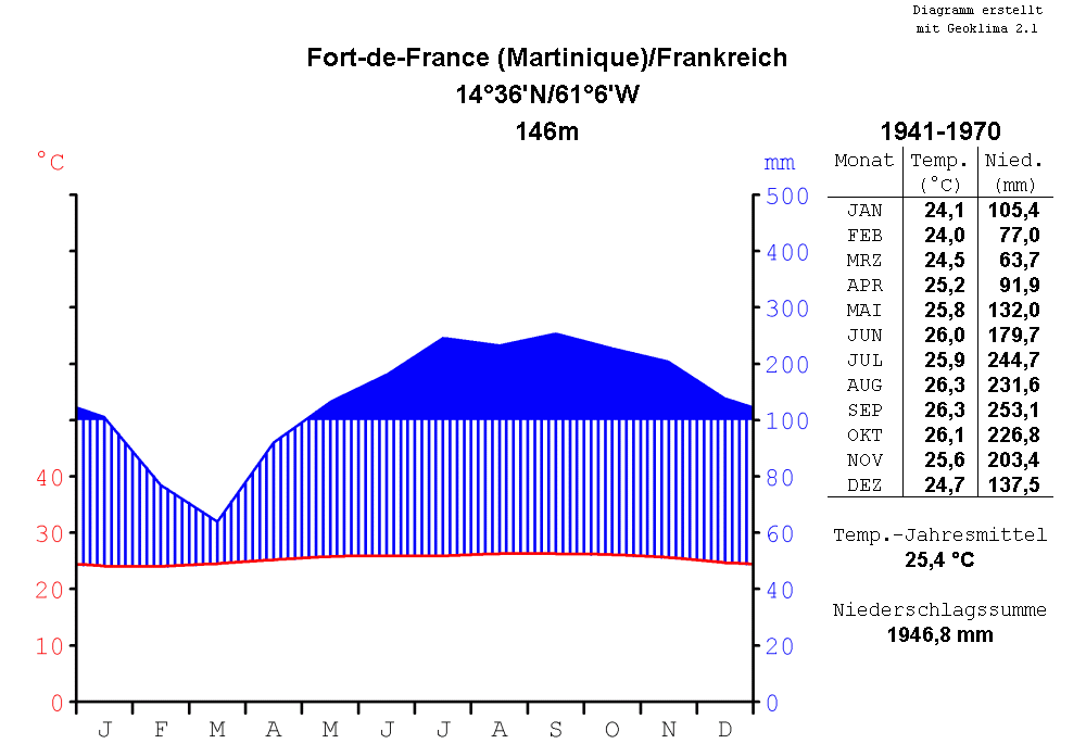 climate chart of Fort-de-France, Martinique, France, for the period of time from 1941 to 1970, in the format by Walter and Lieth, metric, °Celsius and millimeters, chart made with Geoklima 2.1, label in German